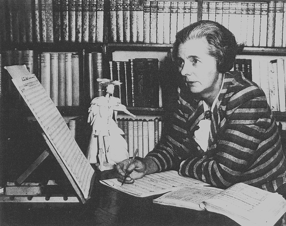 Picture of Margaret More